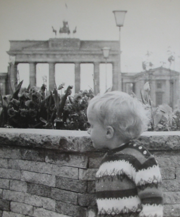 Berlin Baby-Wall 1968 on the east side. A small border with flowers on the east side of the Brandenburger Tor, this was the nearest point of view for visitors. ...more: For more information about the photo see: [1]